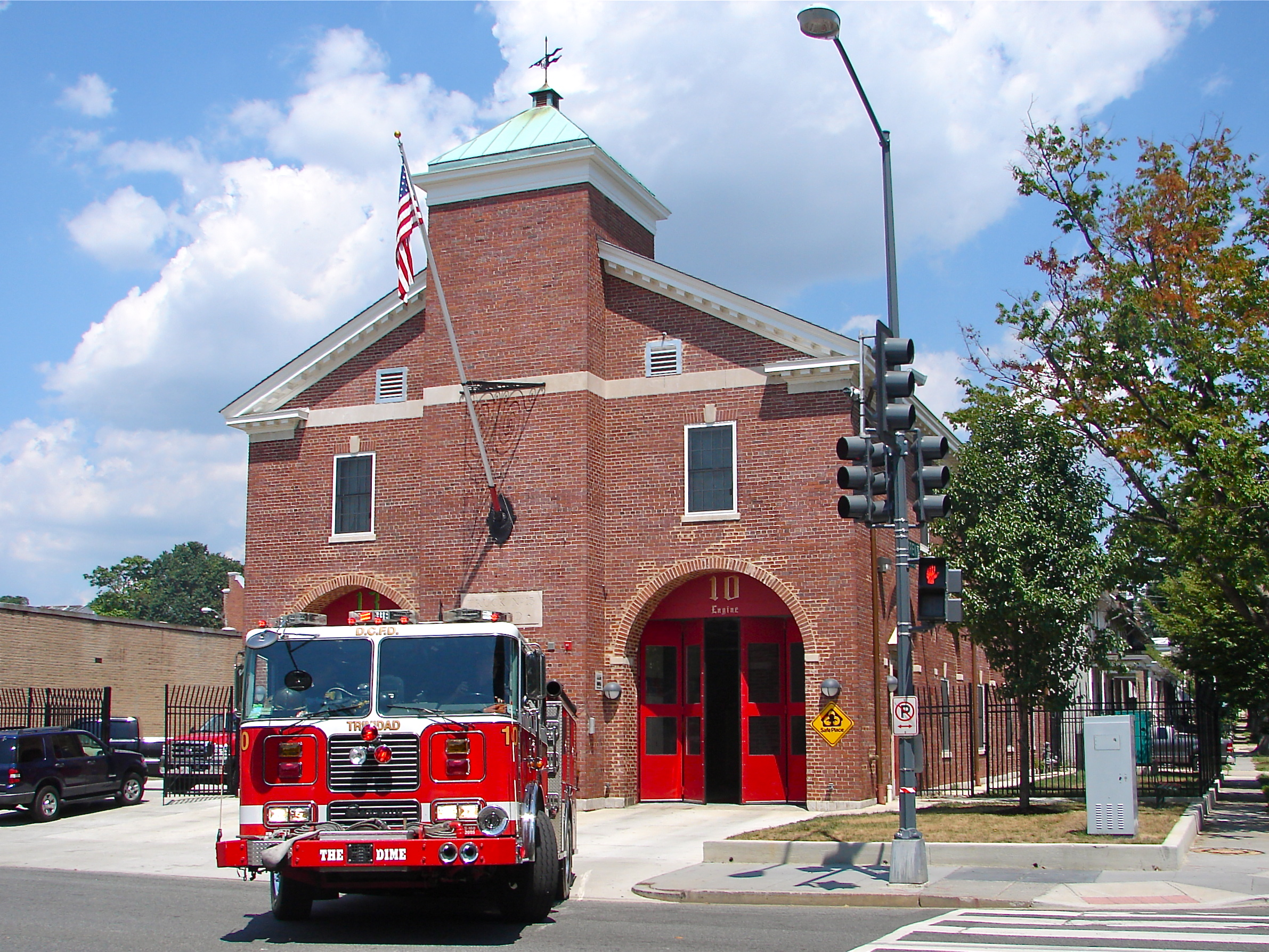 Truck House No. 13 on the NRHP since June 6, 2007. At 1342 Florida Ave. NE, Washington, D.C. Note Engine No. 10 (the "Dime") leaving the house to go on a call. Part of the NRHP MPS for Firehouses in Washington, DC.